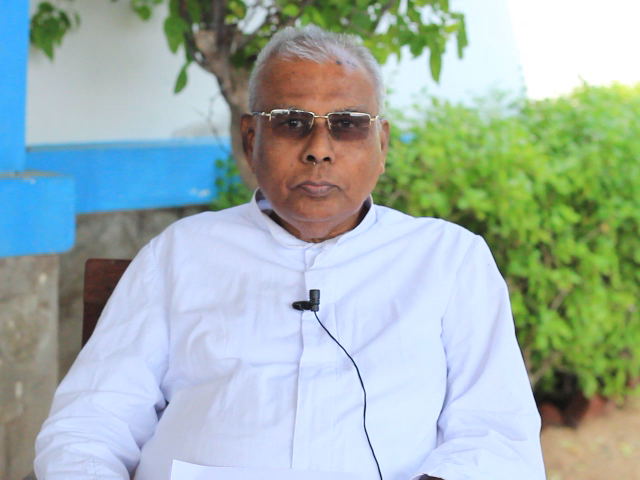 Fr Stephen Gomez